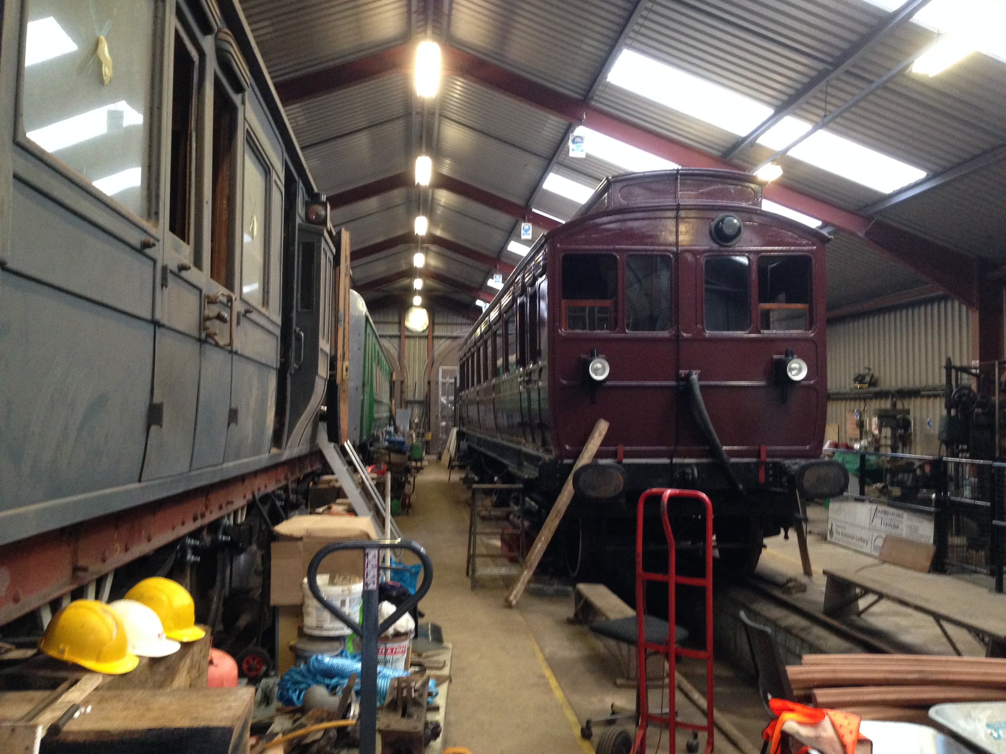 BCDR Railmotor in the workshops at Downpatrick.